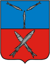 Volgograd (Tsaritsyn, Volgograd oblast), coat of arms (1857)